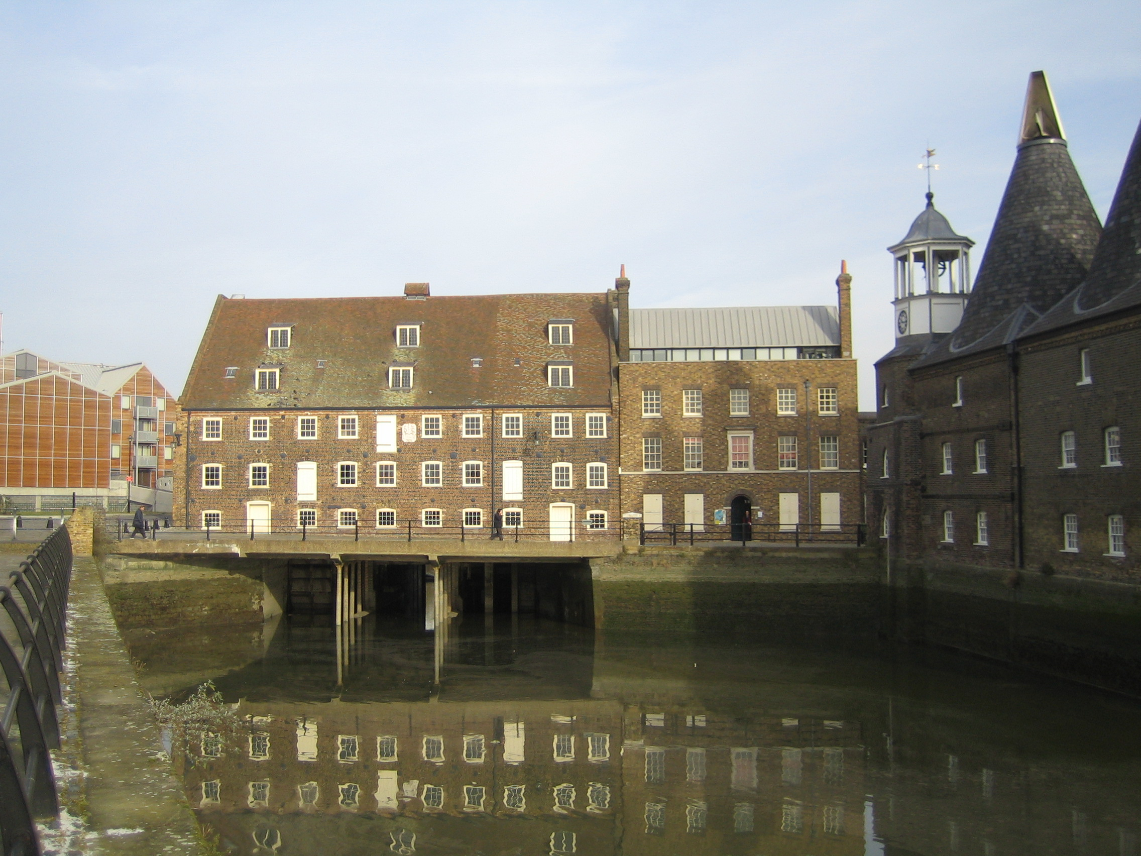 House Mill and the Miller's House at Three Mills (Bow Creek) at low tide